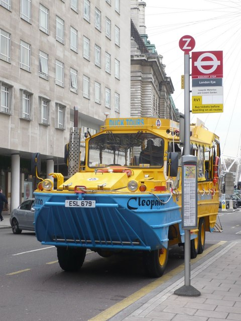 Duck Tours vehicle at the London Eye bus stop in Chicheley Street